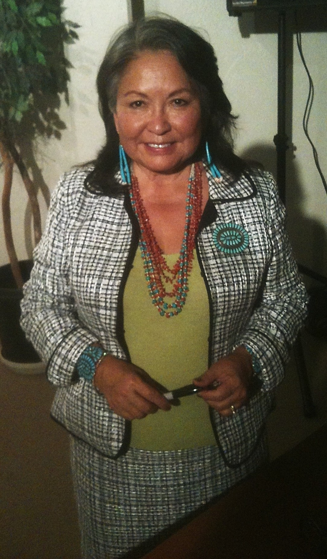 Luci Tapahonso at a poetry reading at Diné College